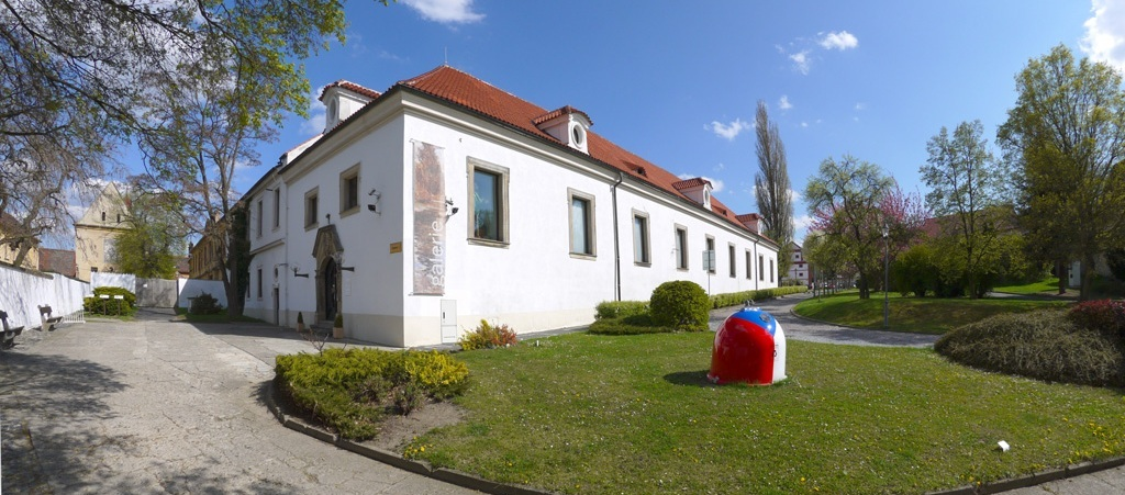 Gallery of Modern Art